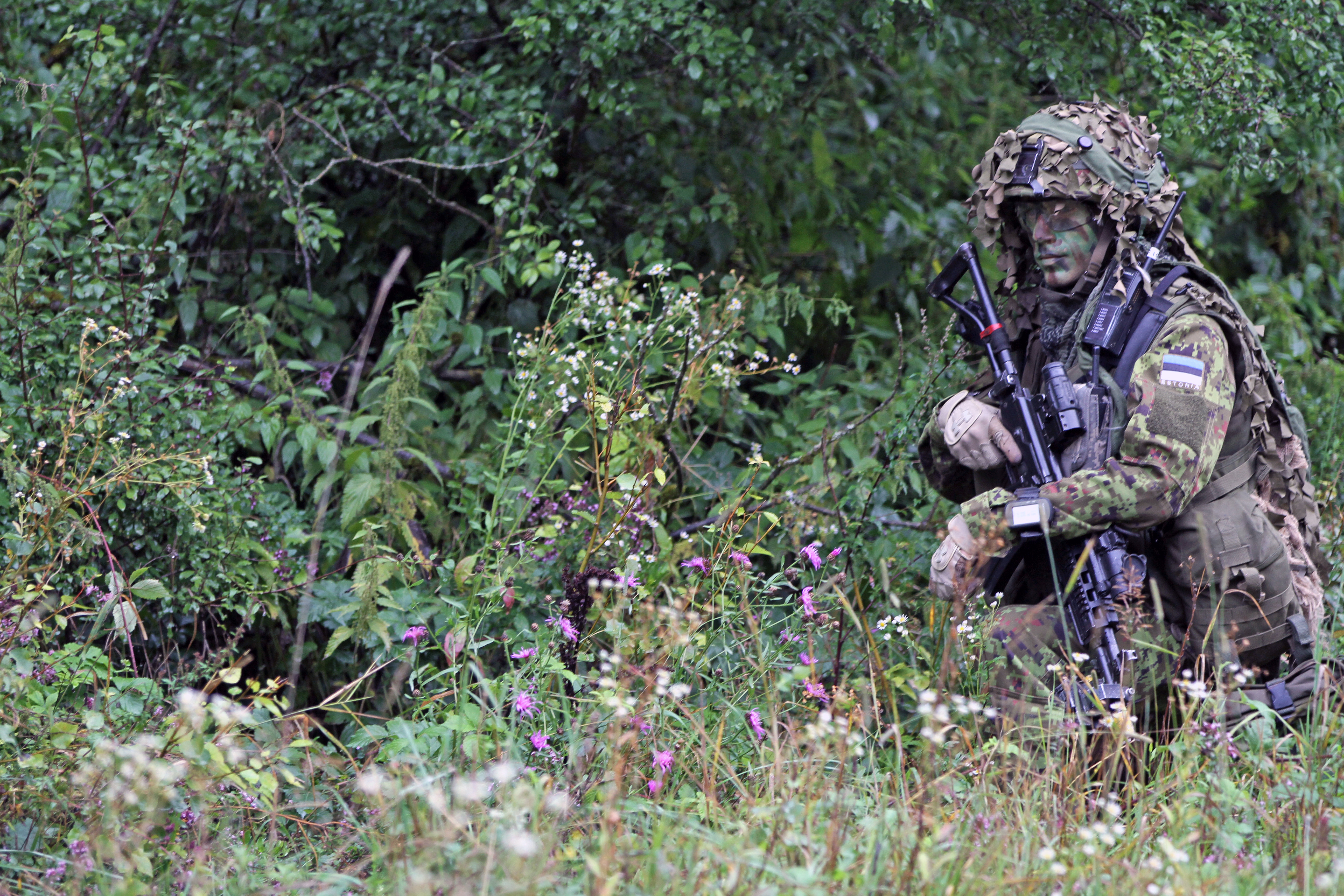 Estonian army Sgt. 1st Class Andrei Kurotskin of Palkiski, and assigned to the Estonia Scout Battalion, provides security during an STX (simulated training exercise) lane at Hohenfels Training Area Aug. 27. Saber Junction 14 is a large-scale, joint, multinational, annual military exercise, involving hundreds of aircraft and vehicles and thousands of personnel from 16 different nations. The exercise will prepare brigade-level units for worldwide contingency operations. The exercise further focuses U.S., NATO, and partner forces on concepts such as decisive and sustainable land operations through the simultaneous combination of offensive, defensive and stability operations and on interoperability with partnered nations. More information about Saber Junction 2014 can be found at (U.S. Army photo by Sgt. Christina M. Dion/Released)